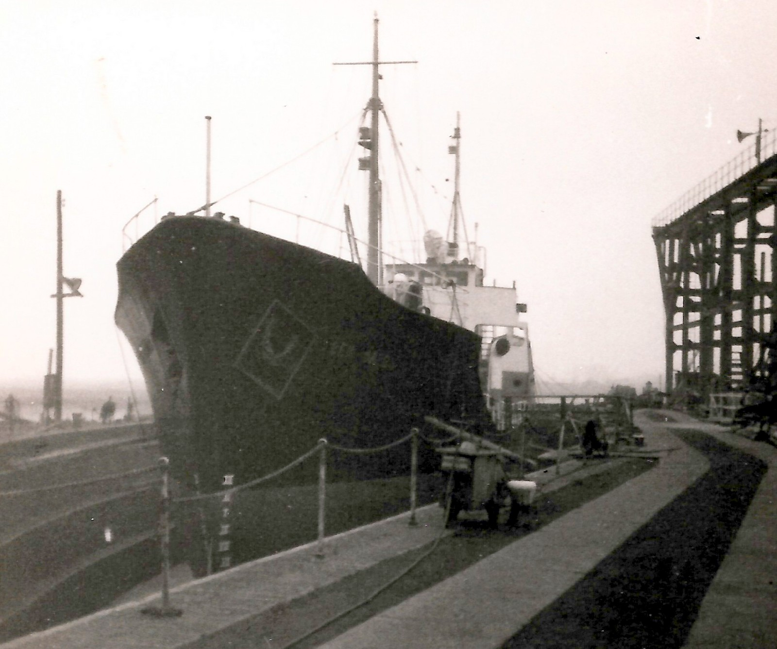 Ben Bates in dry dock. After completion by Rowhedge Ironworks Co, Rowhedge, the ship was moved across the river to Wivenhoe Shipyard Co, Wivenhoe, Essex. Here the ship was inspected and repainted ready for handing over the owners. The dry dock is now filled in and is an ornamental pond on a housing estate.